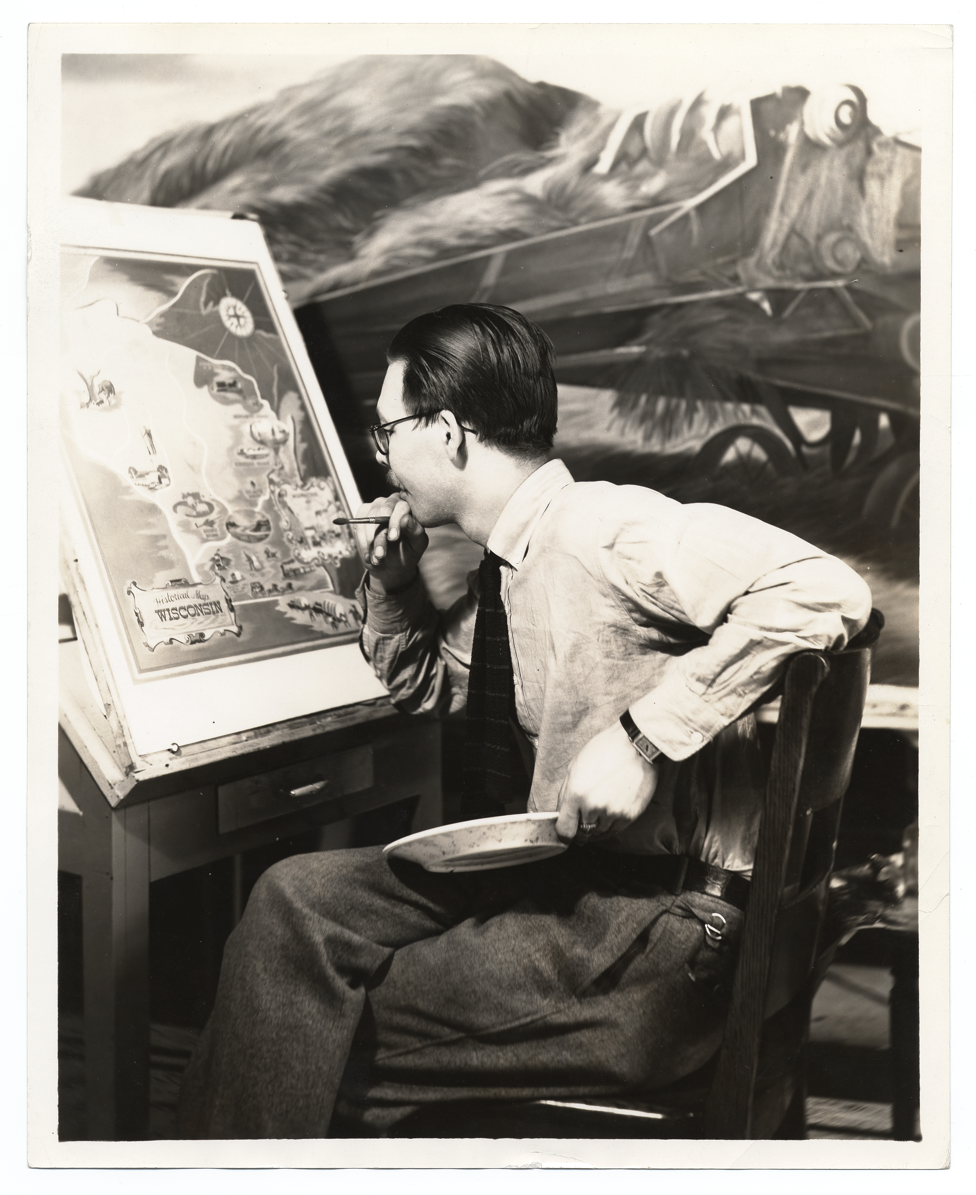 Identification on verso (handwritten): Federal Art Project Wisconsin. Artist Richard Jansen works on his mural sketch for a Historical Map of Wisconsin.